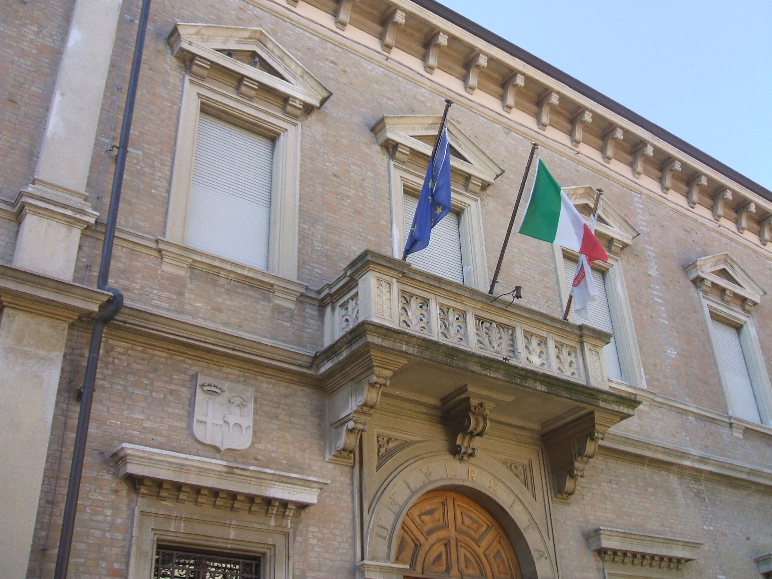 Bologna University in Rimini, Italy